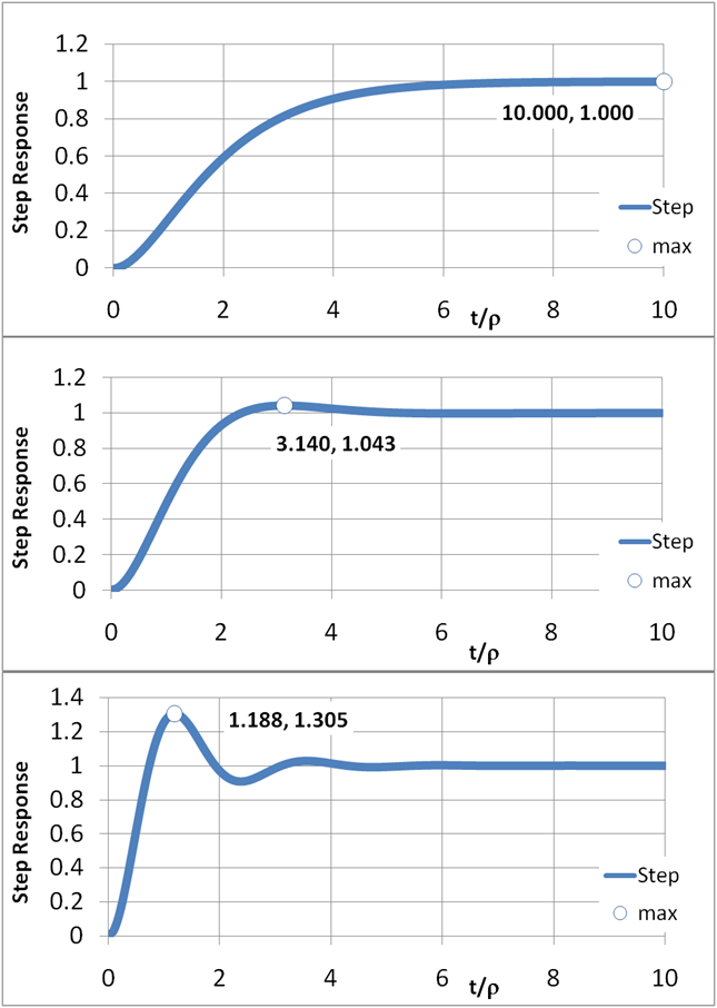 Step response for various spcings of the time constants